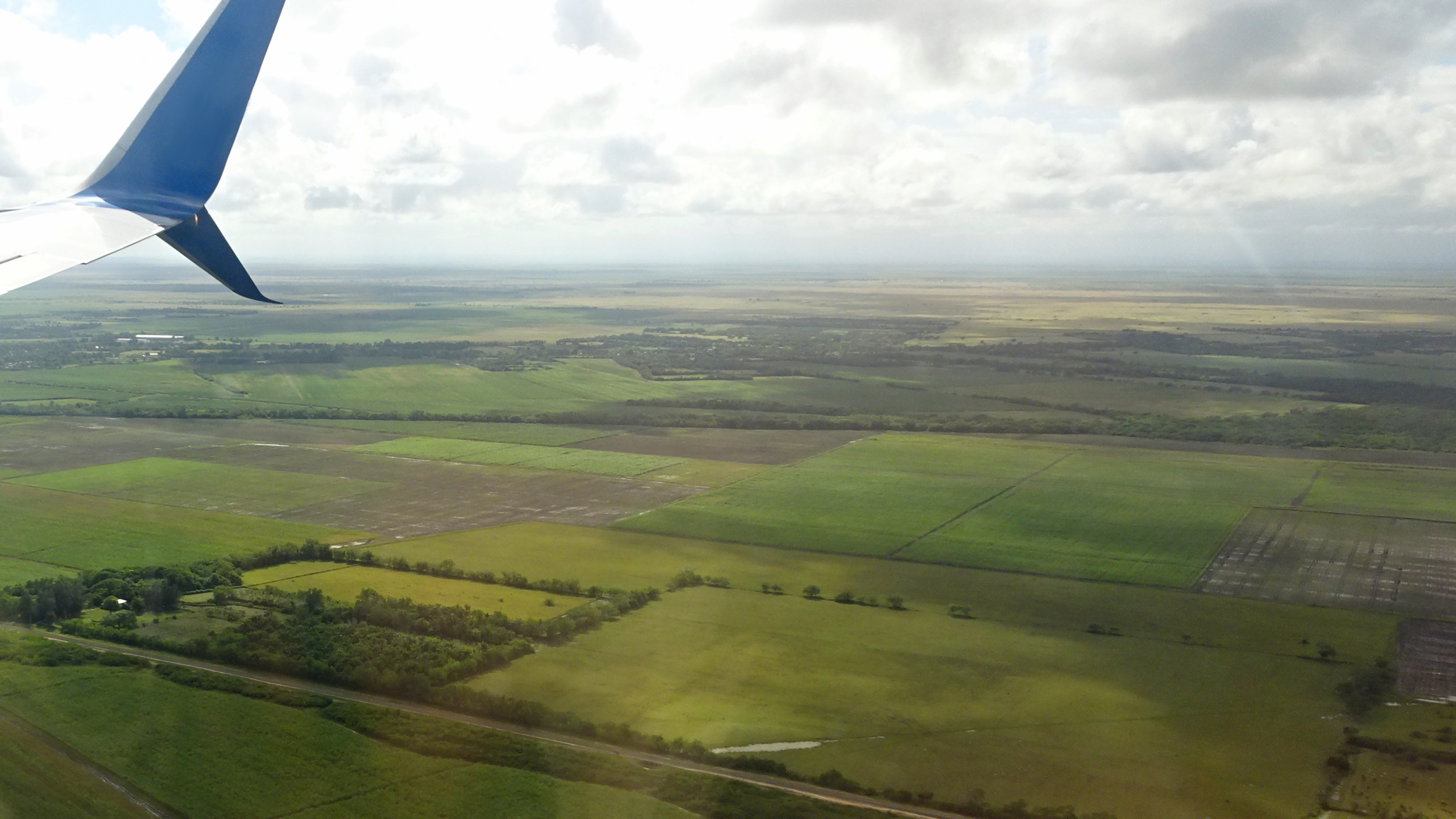 Aerial view of Cacocum, Holguin Province, Cuba